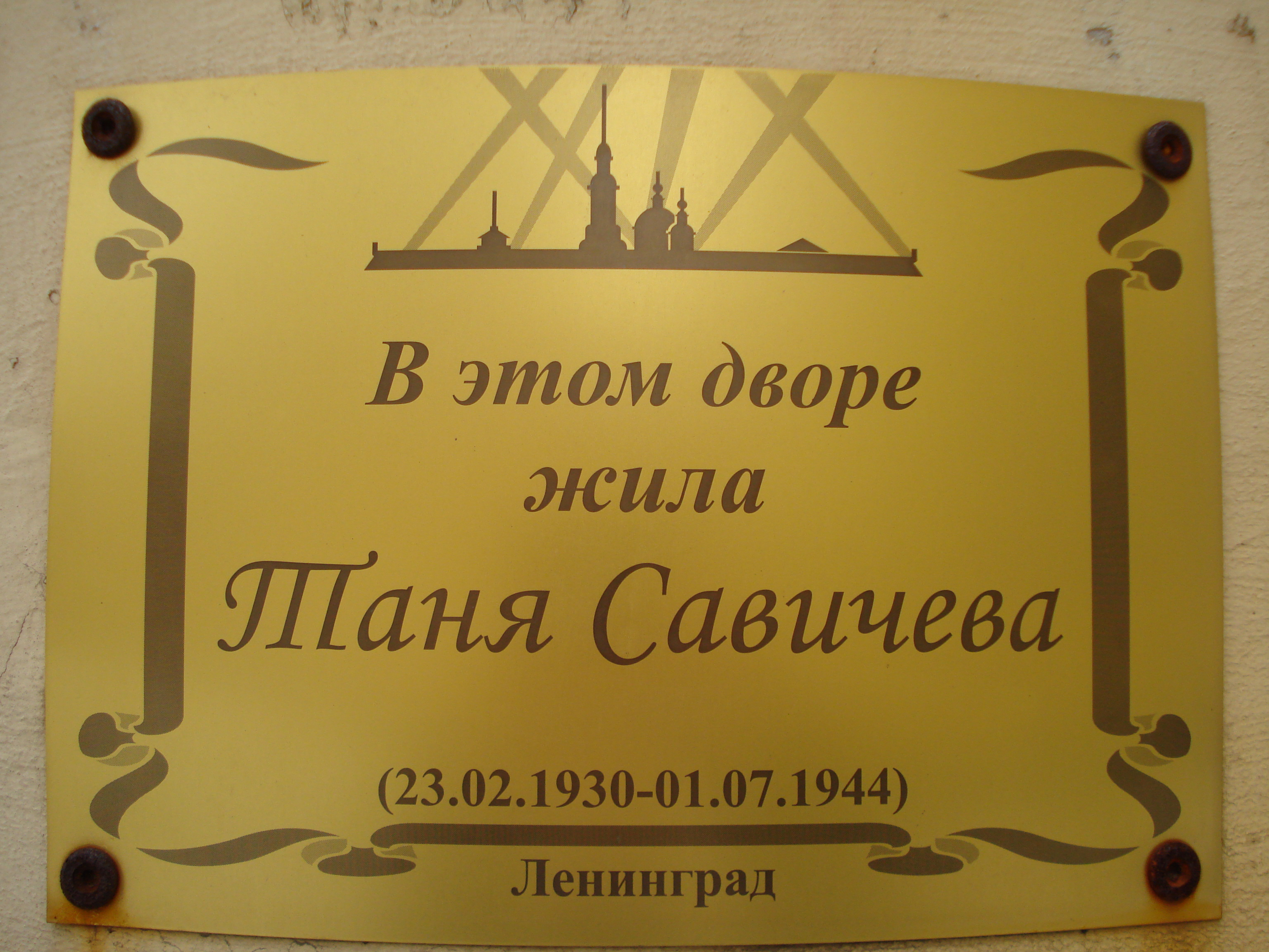 The memorial plate in the court, when lived Tanya Savicheva, Saint Petersburg, Russia.